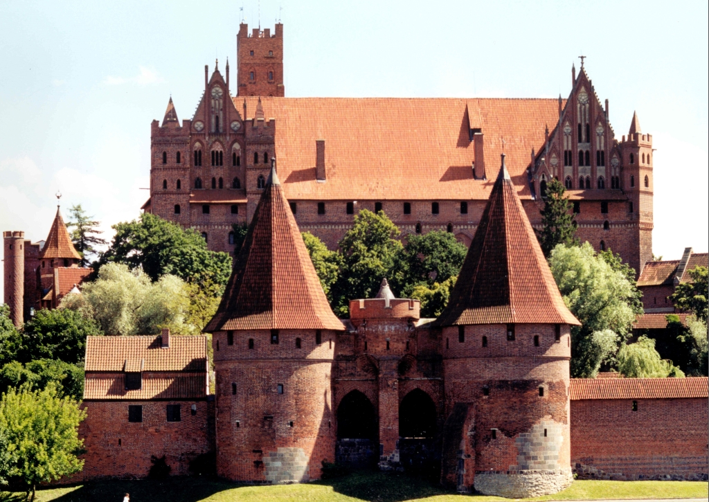 Castle in Malbork, Castle of the Teutonic Knights in Poland.